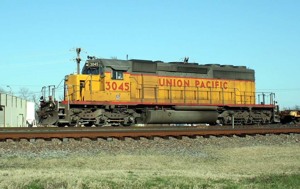 Union Pacific Railroad 3045, EMD SD40-2 [1]